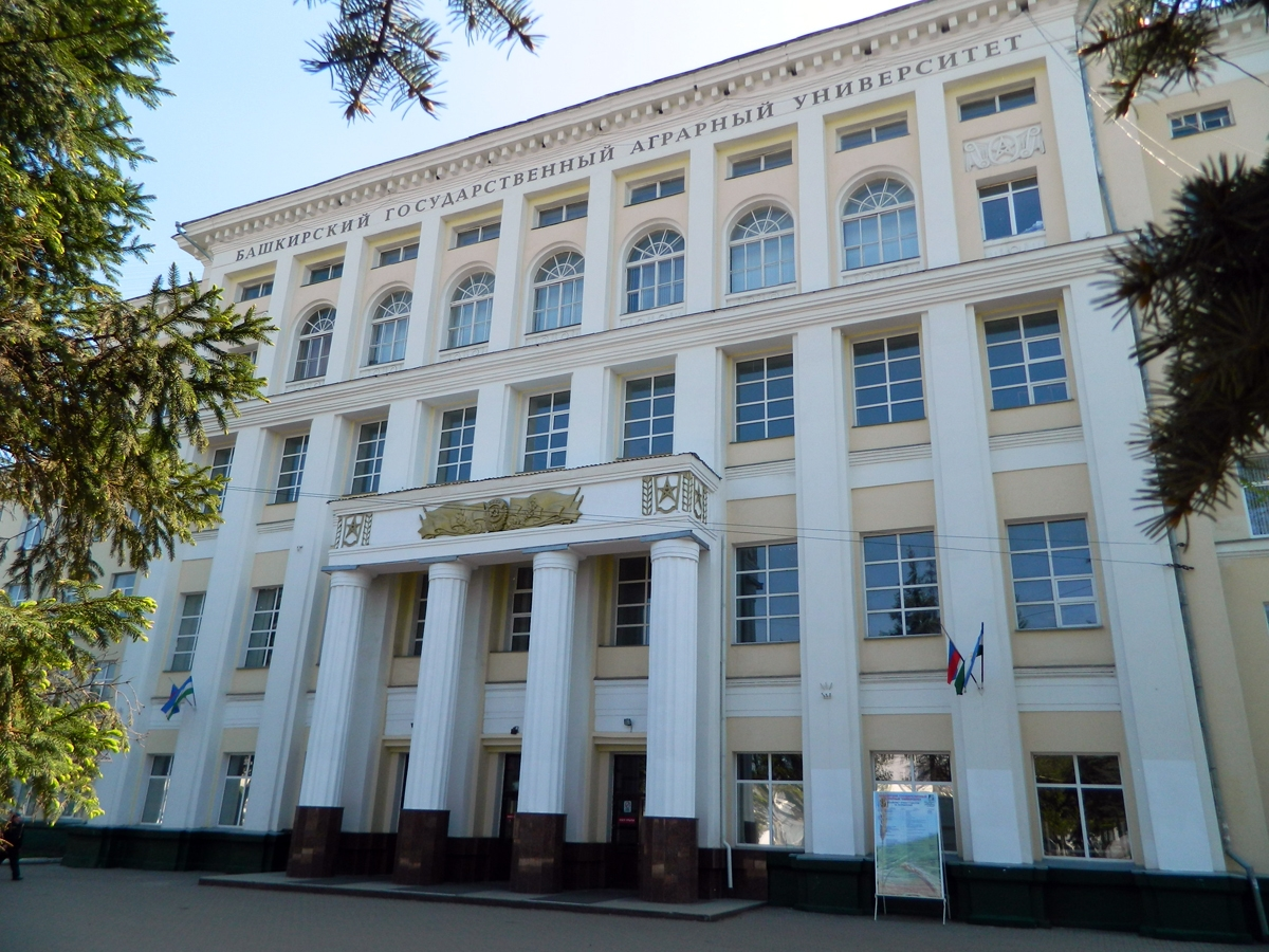 Template:RU